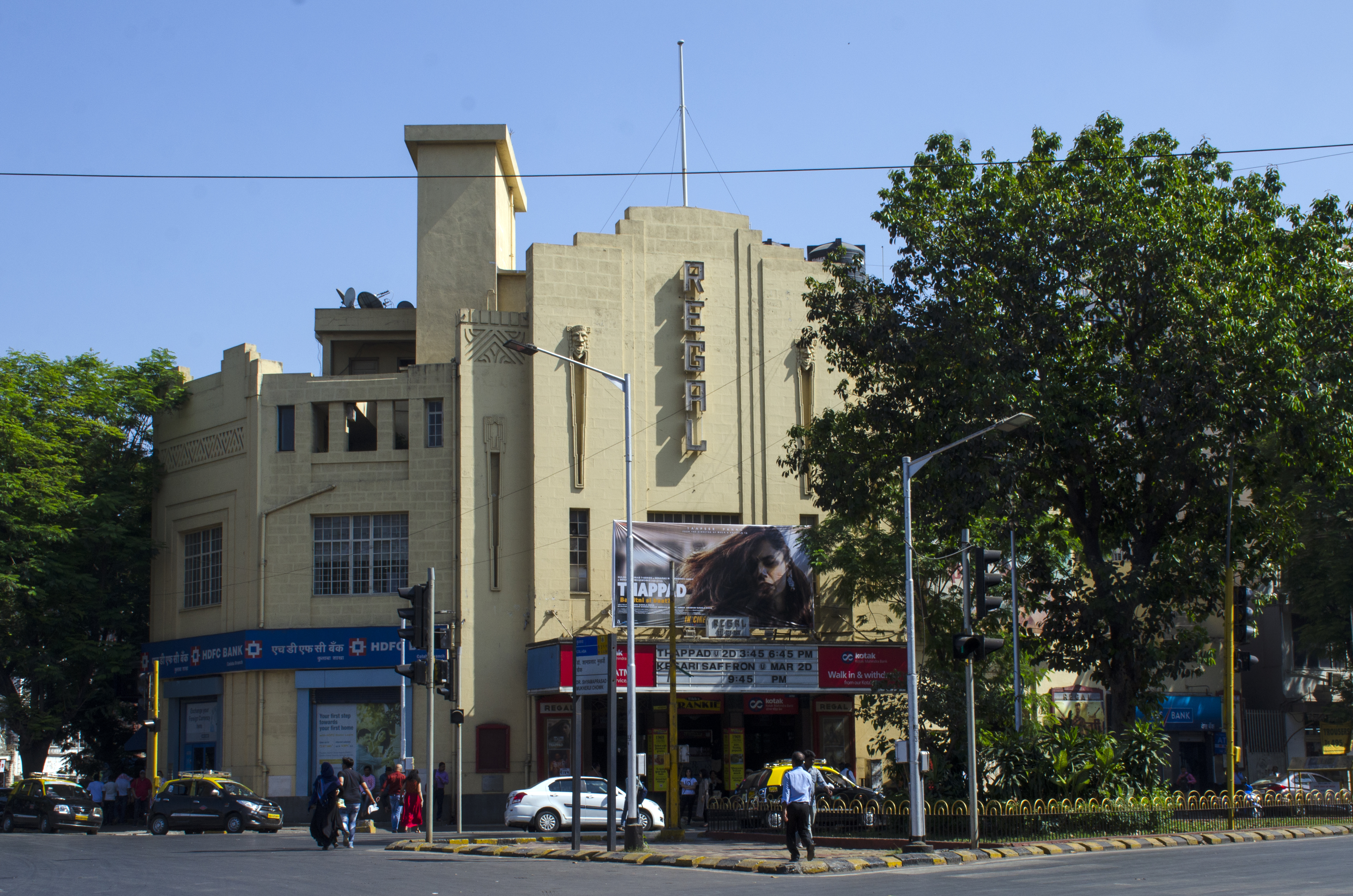 Regal Cinema, Shyama Prasad Mukherjee Chowk, Mumbai